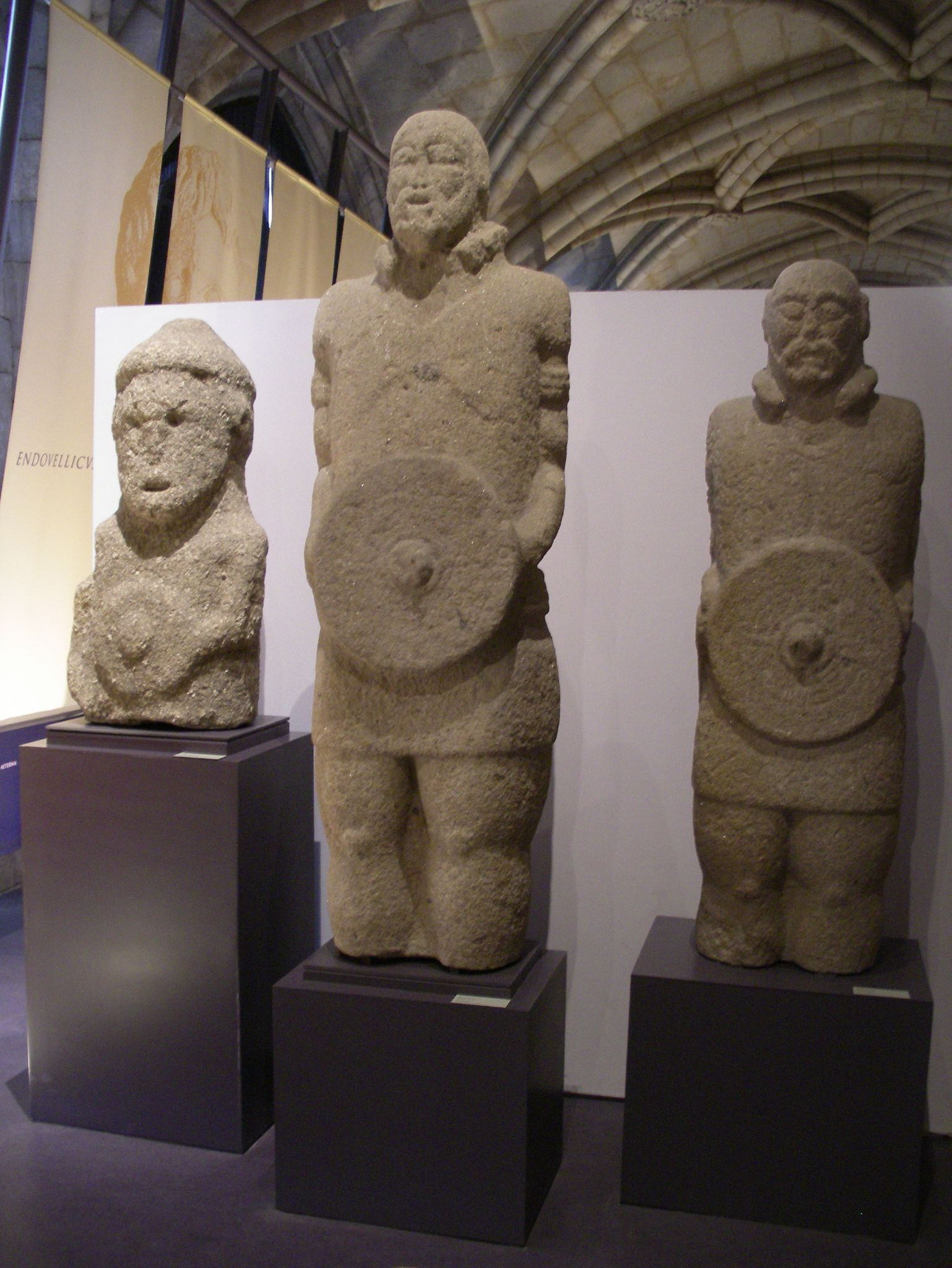 Statues of Lusitanian warriors in the National Archaeology Museum in Lisbon, Portugal